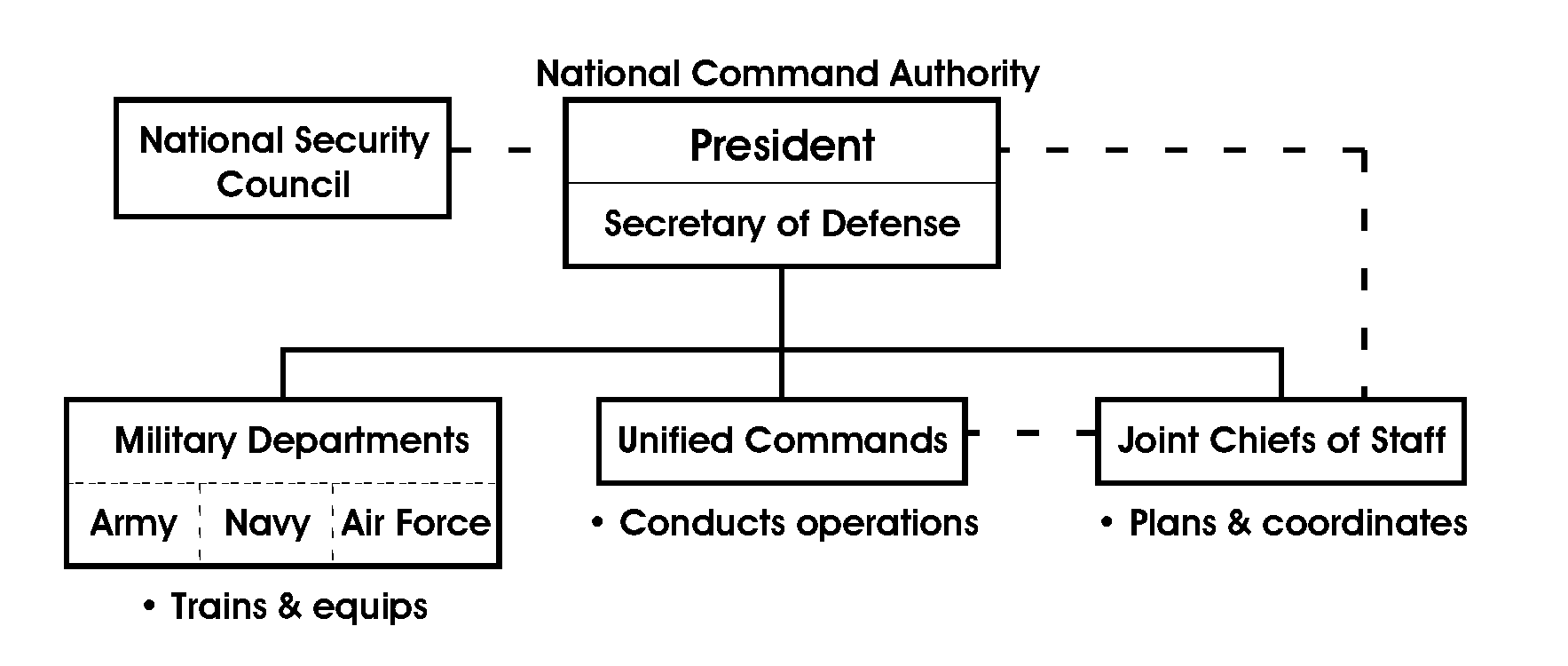 Chart with the top-level chain of command of the USA